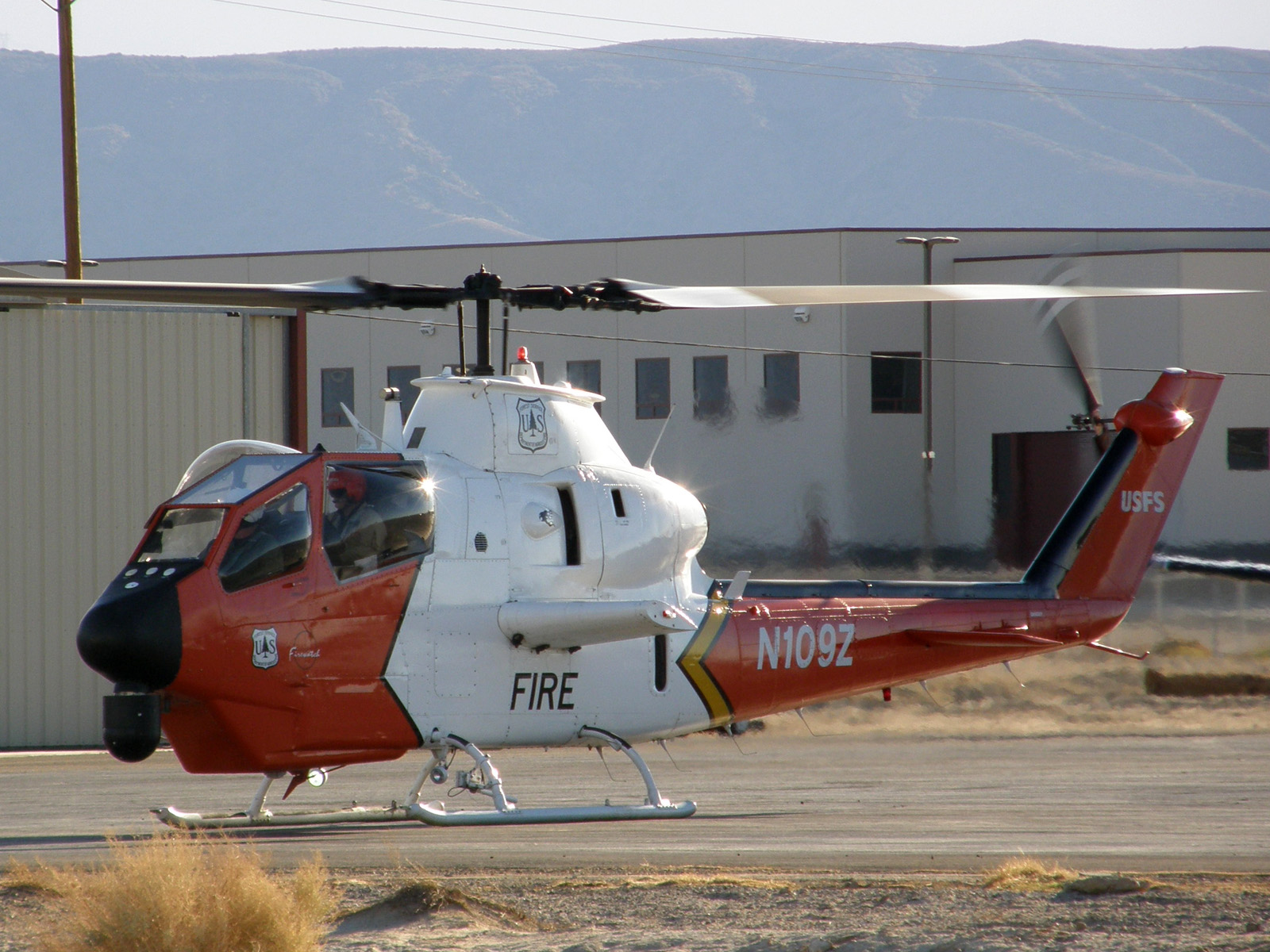 USFS Firewatch Bell 209 Cobra at Fox Field, Lancaster CA, during the 2007 SoCal wildfires.